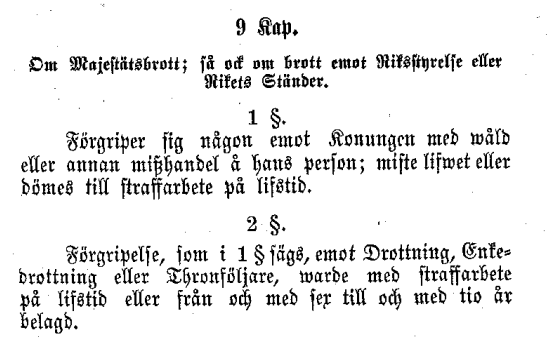 Swedish penal code from 1864, on Lèse-majesté